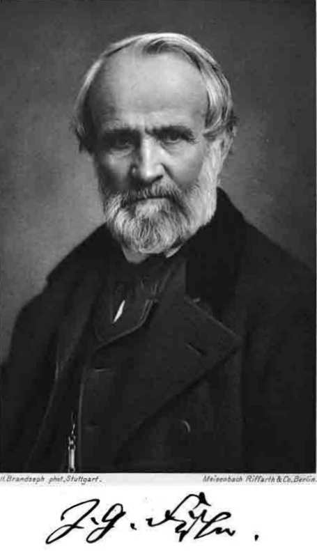 Johann Georg Fischer (1816–1897), German pedagogist and writer